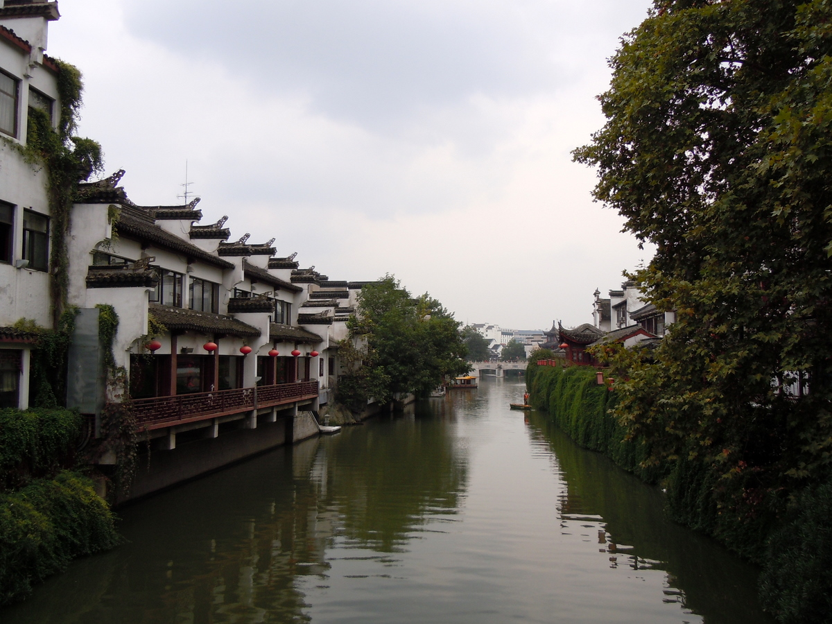 Nanjing